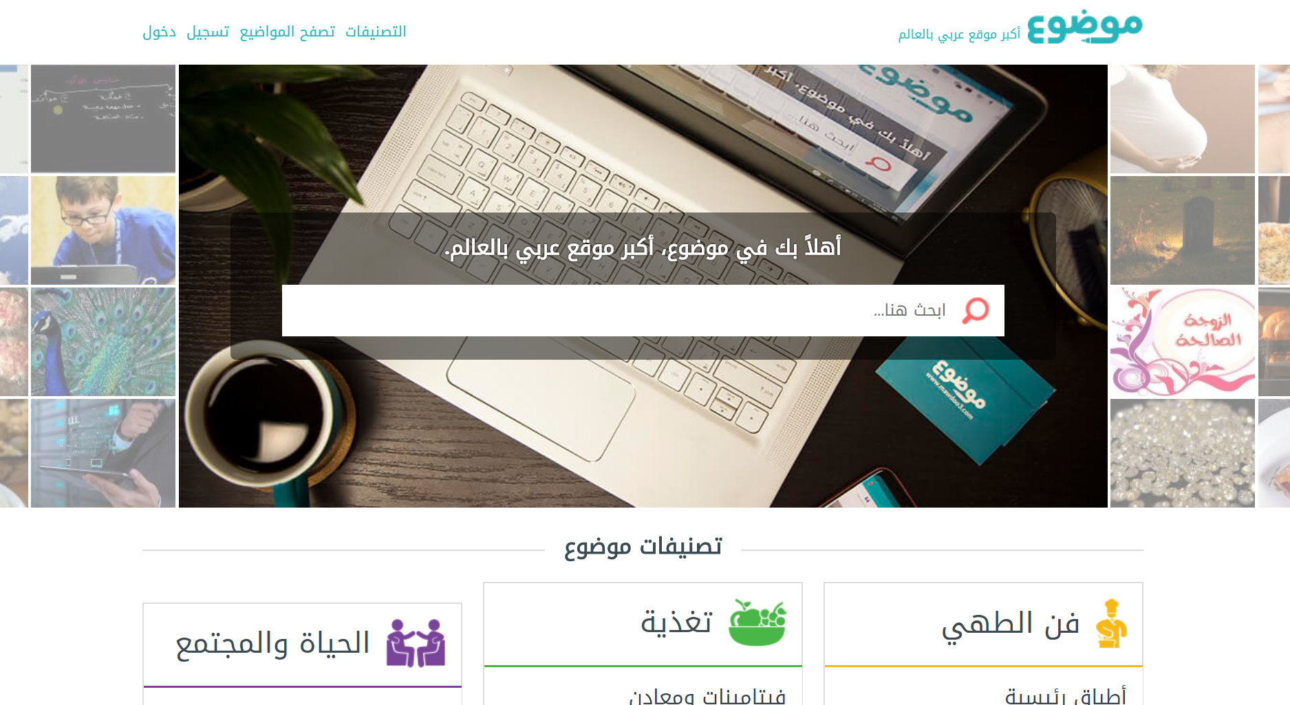 Mawdoo3 Screenshot